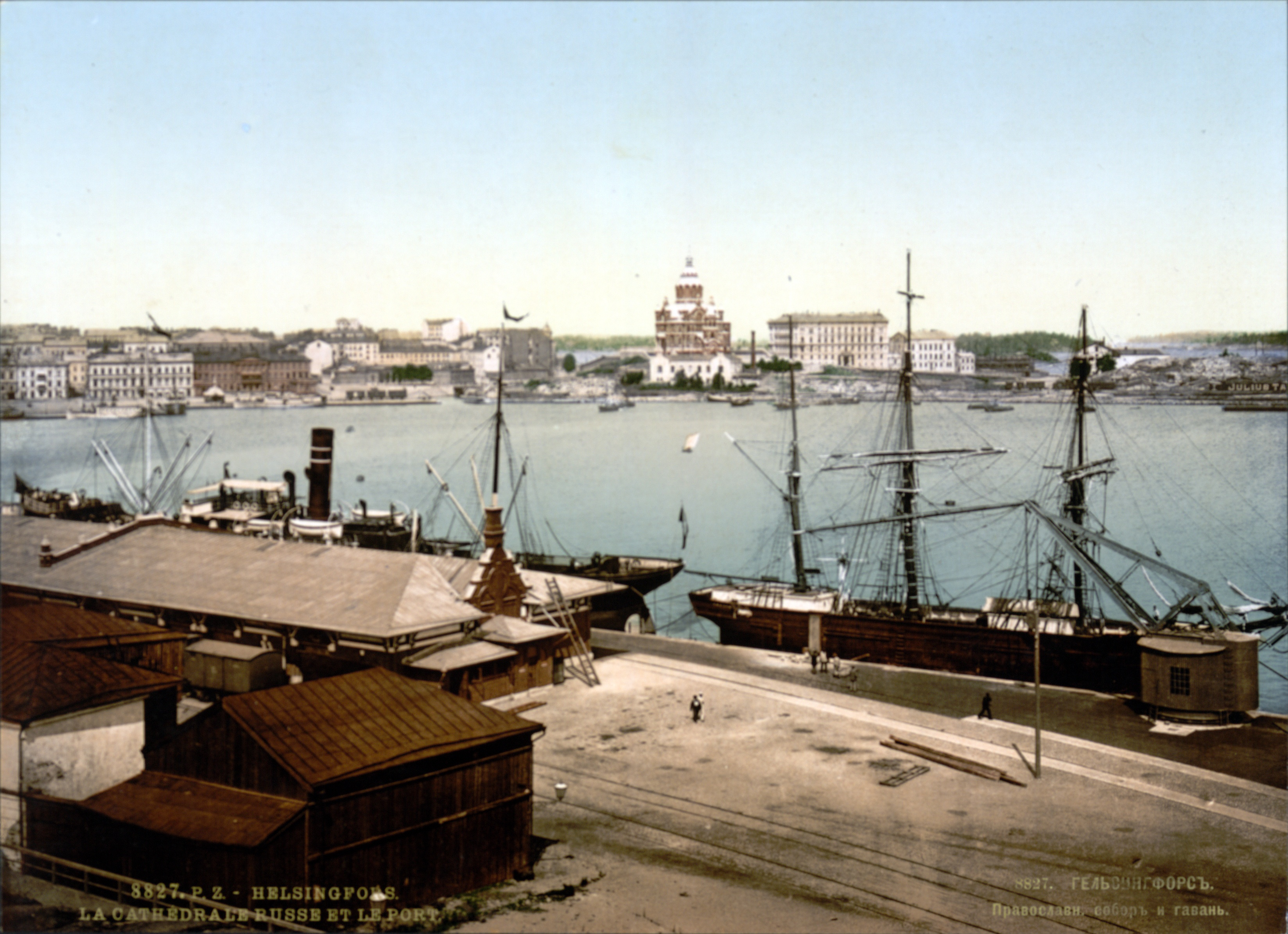 Helsinki harbour (1890–1900), Uspenski Cathedral on the background